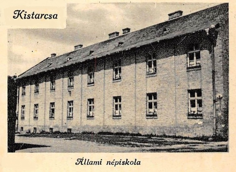 Public school in Kistarcsa